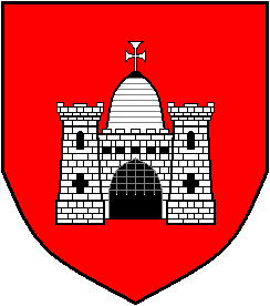 own image Shield of City of Limerick Author: User:Djegan